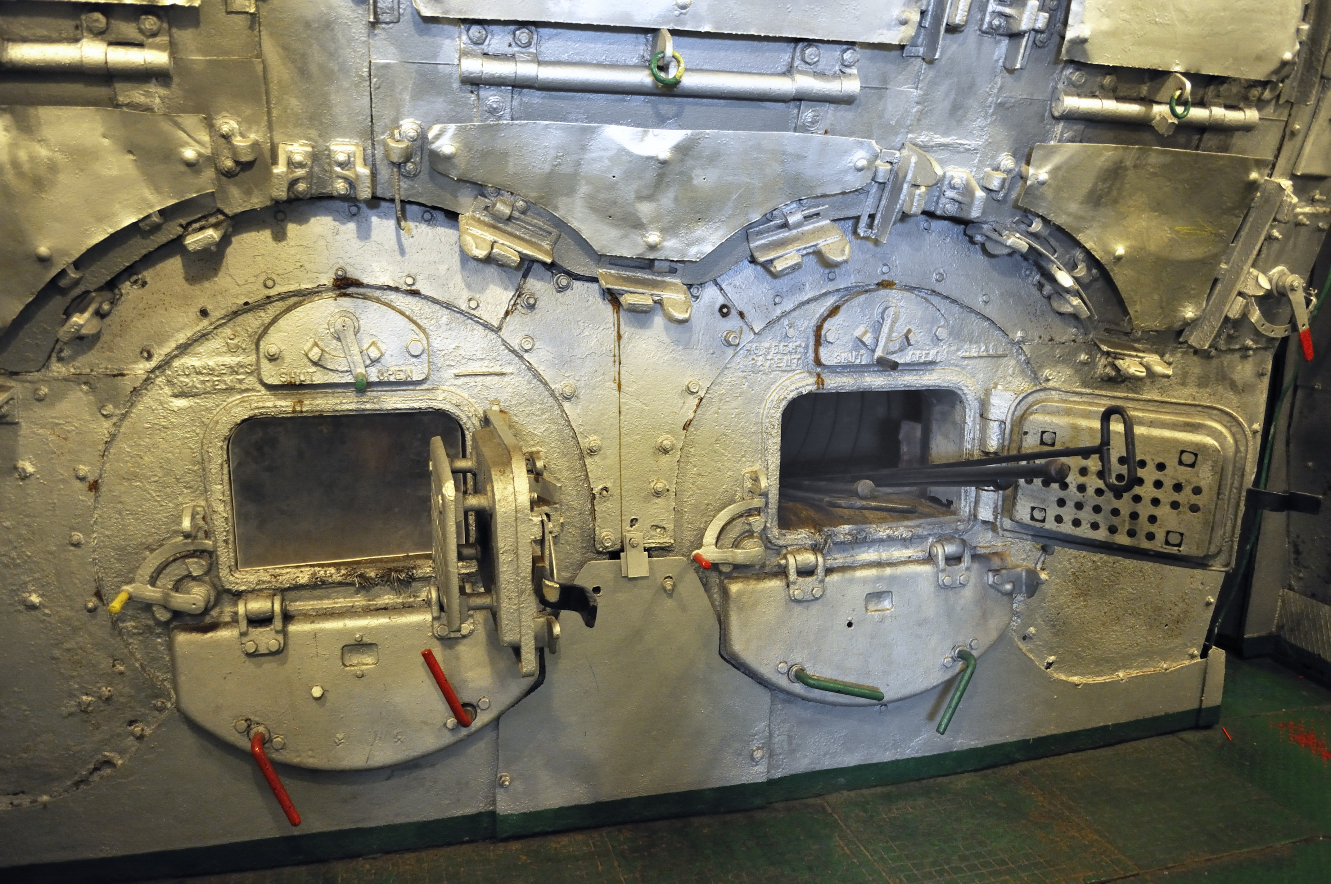 Picture taken in Gdańsk after Wikimania 2010 conference. Engines in SS Sołdek.